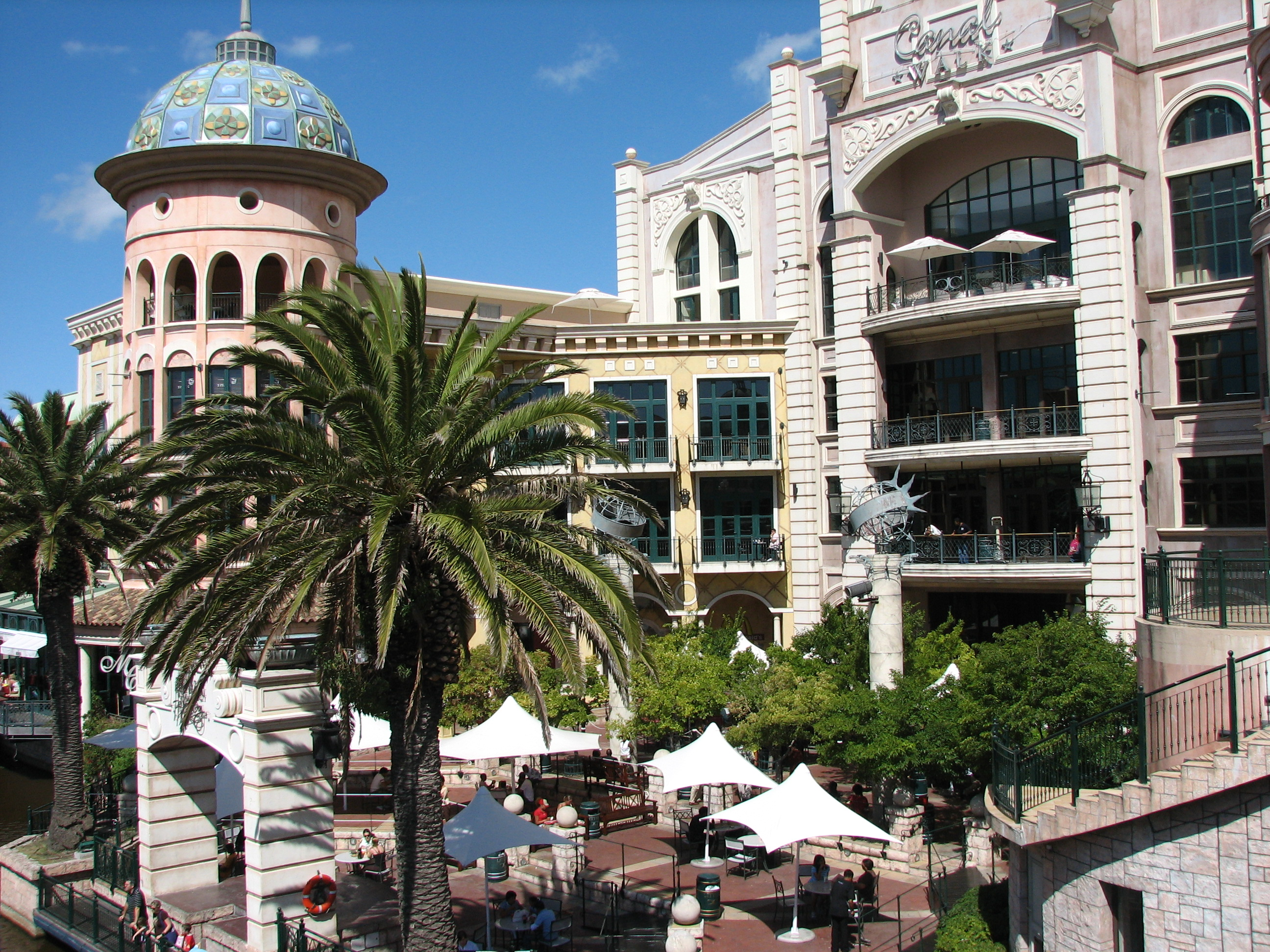 Canal Walk Shopping Centre, on 28 December 2006 Taken by myself, Andres de Wet, on 28 December 2006